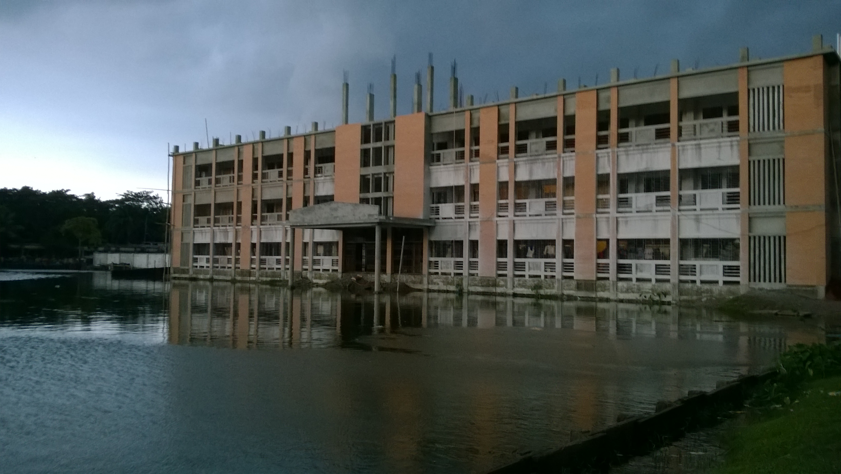 Under constructing academic building of LGC